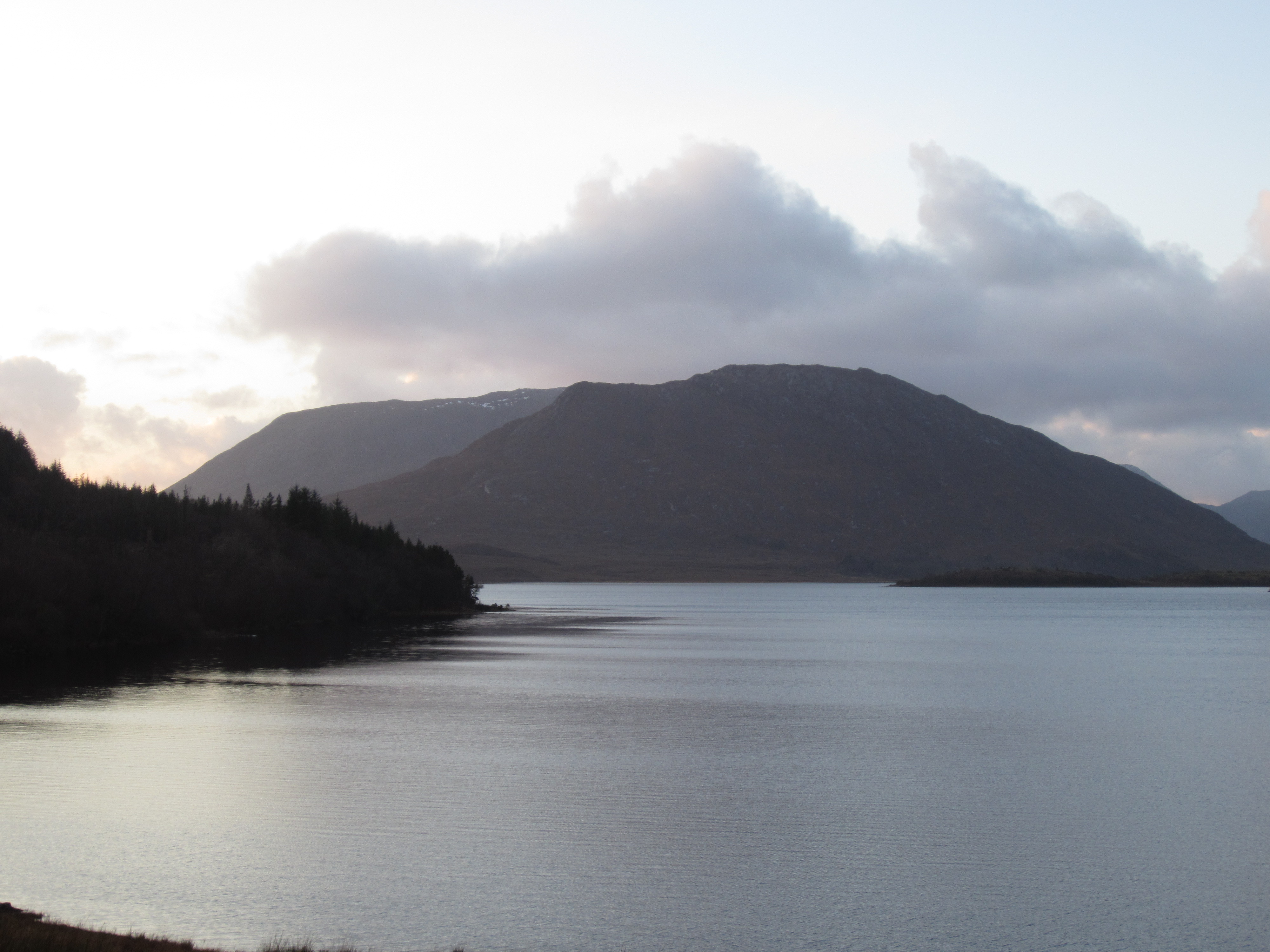 This is a photo of Lackavrea hill taken from the eastern side over Lough Corrib.